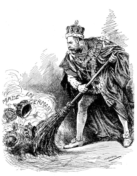 A Good Riddance: "The King has done a popular act in abolishing the German titles held by members of His Majesty's family." Cartoon of George V of the United Kingdom in Punch, or the London Charivari, Vol. 152, June 27, 1917, by Various, Edited by Owen Seaman.